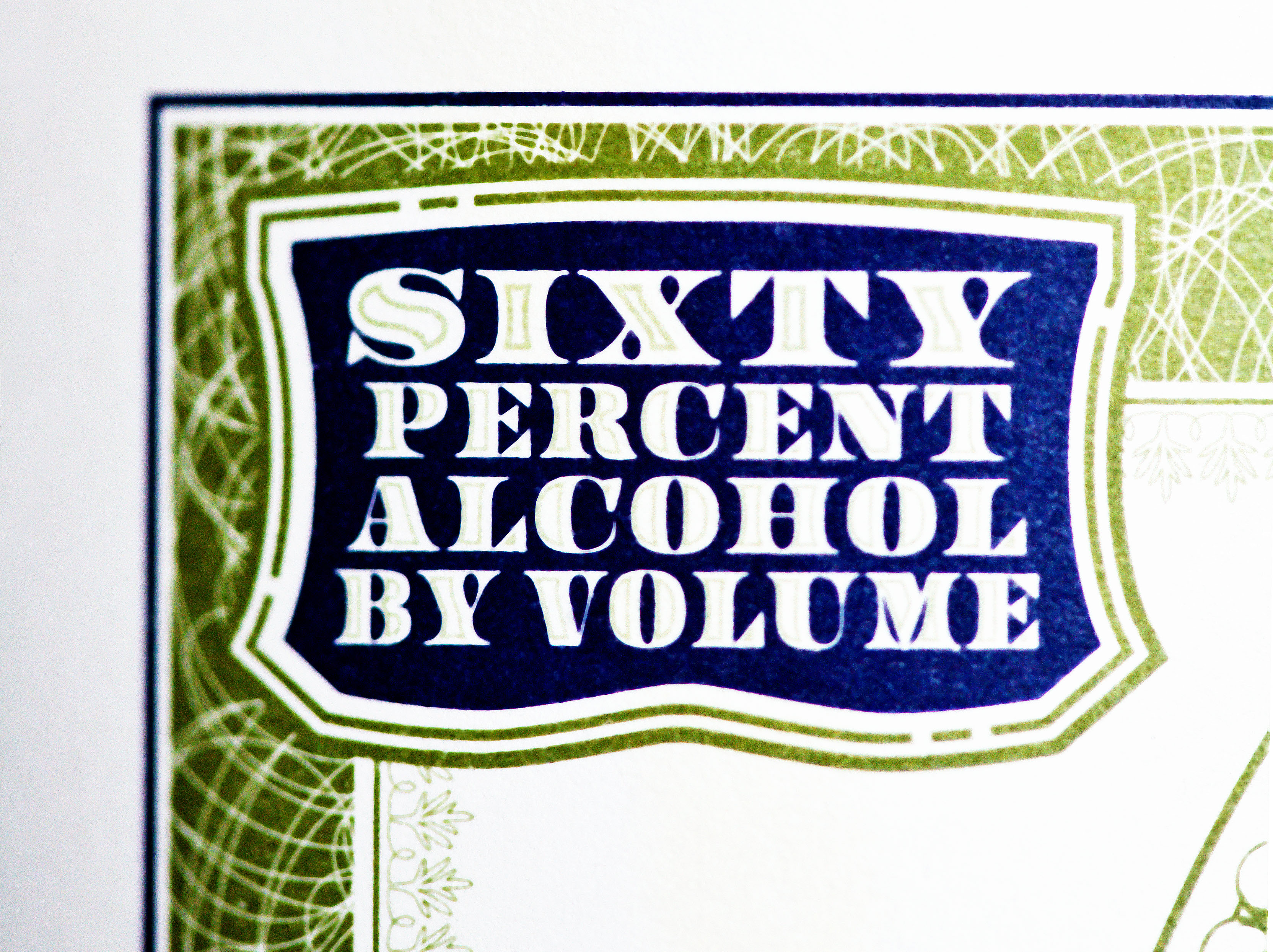 ABV number on a bottle of absinthe.